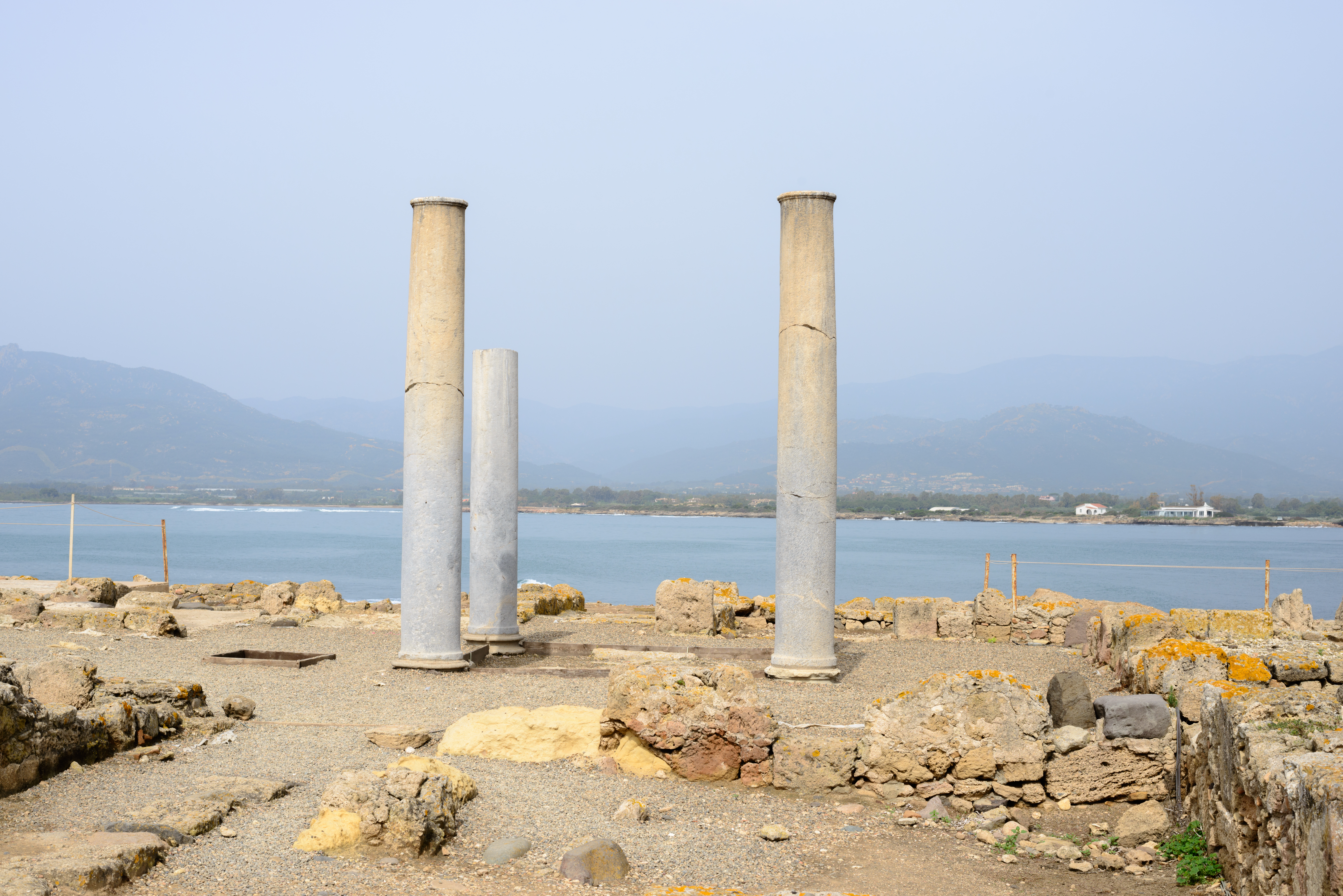 Archaeological site Nora, Pula, Sardinia, Italy.